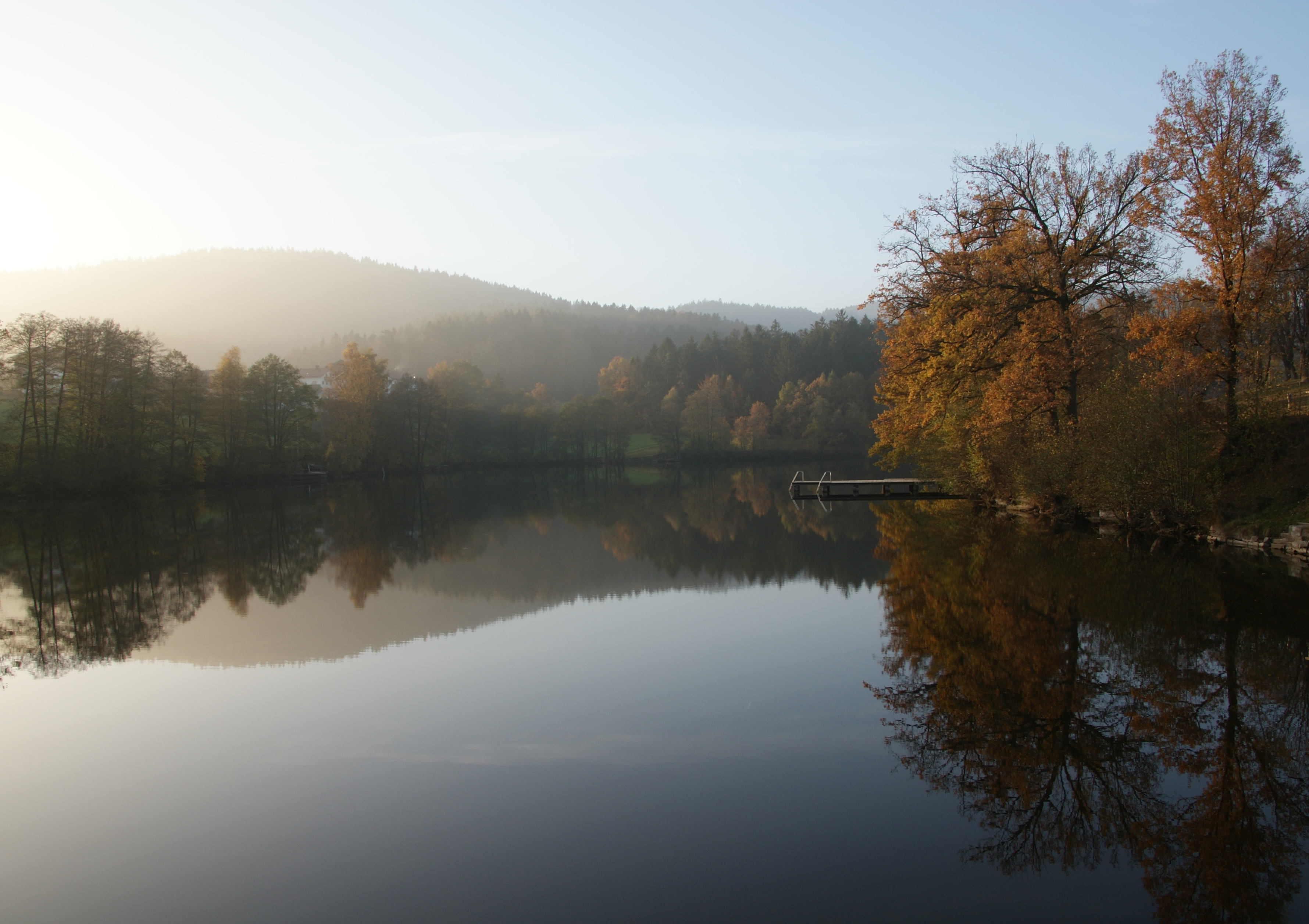 Freudensee near Hauzenberg